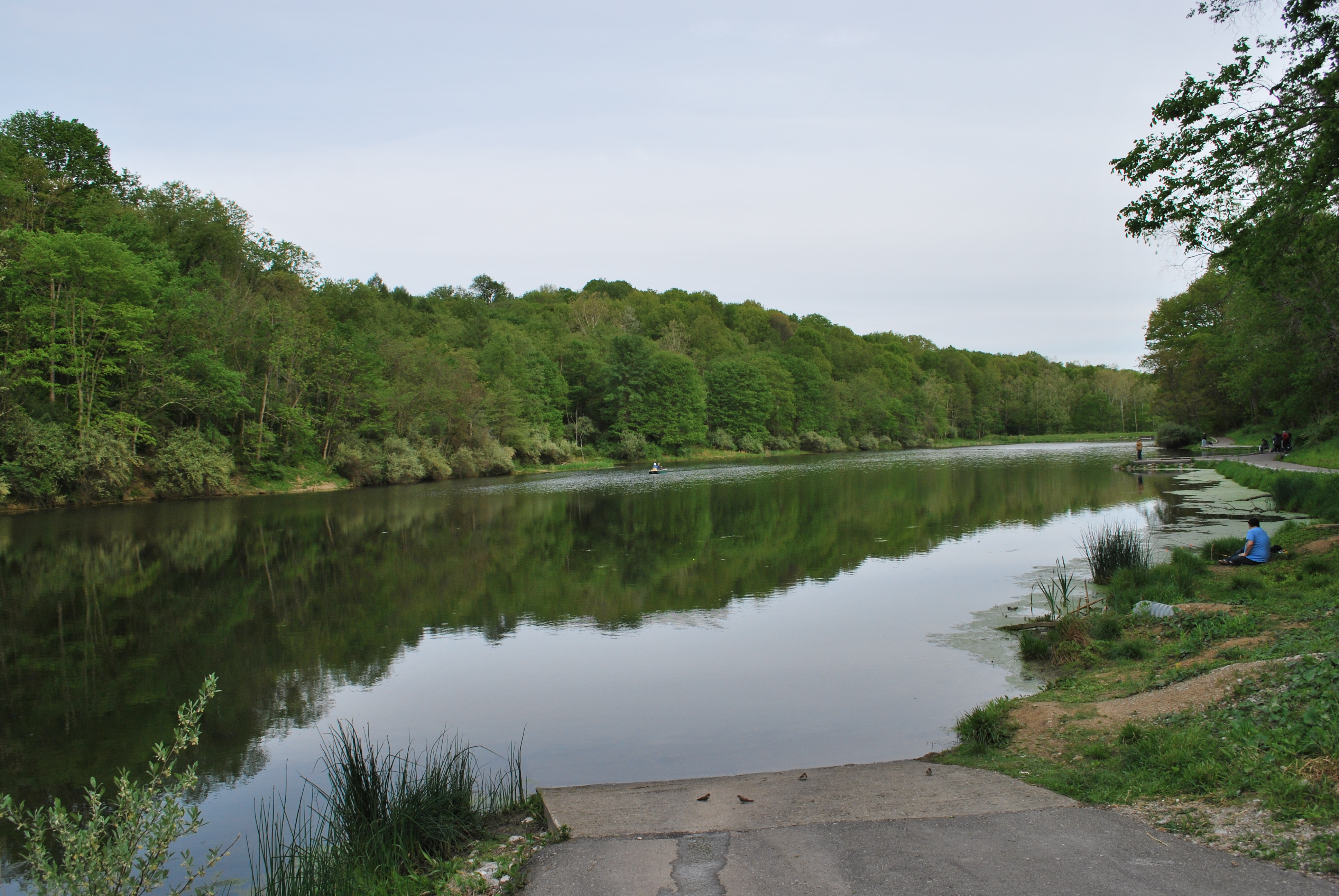 Bear Lake at Bear Rock Lakes Wildlife Management Area near Valley Grove, West Virginia.